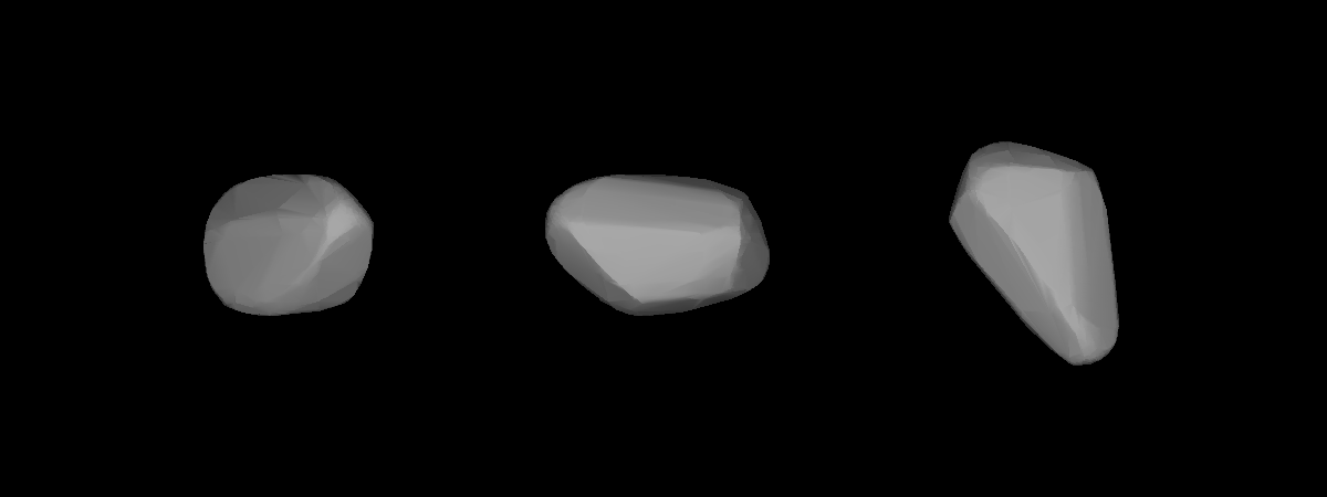 A three-dimensional model of 770 Bali that was computed using light curve inversion techniques.